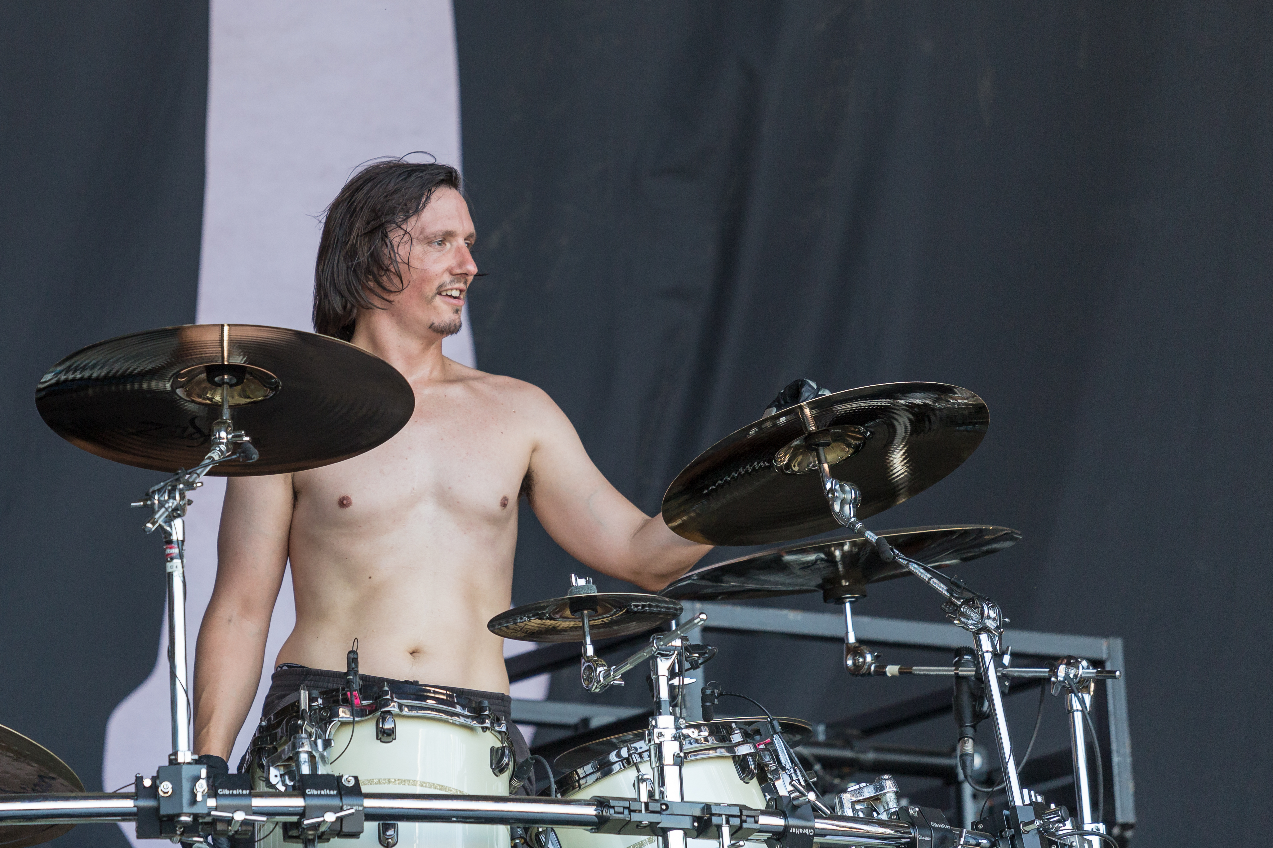 Nova Rock 2017 Mario Duplantier from Gojira at the Nova Rock 2017